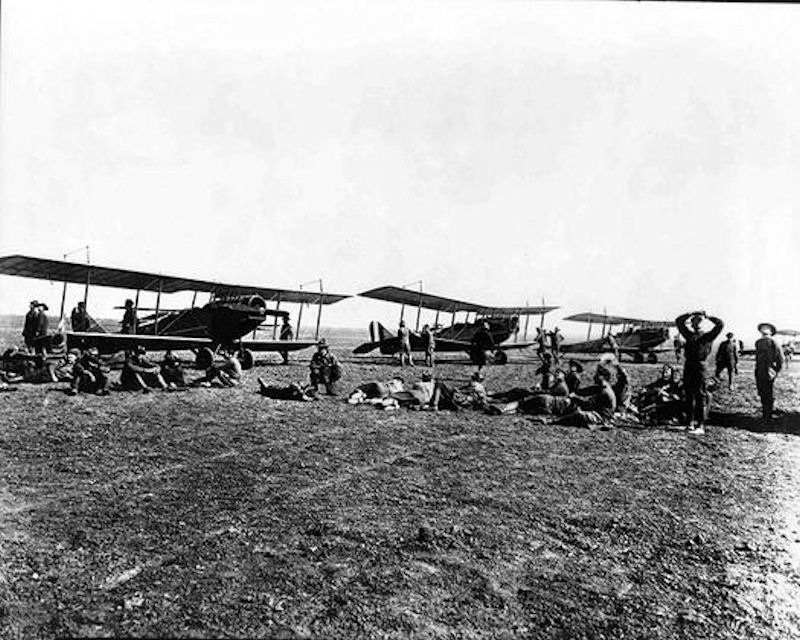 Curtiss JN-4 "Jennies" at Ellington Field, Texas, 1918